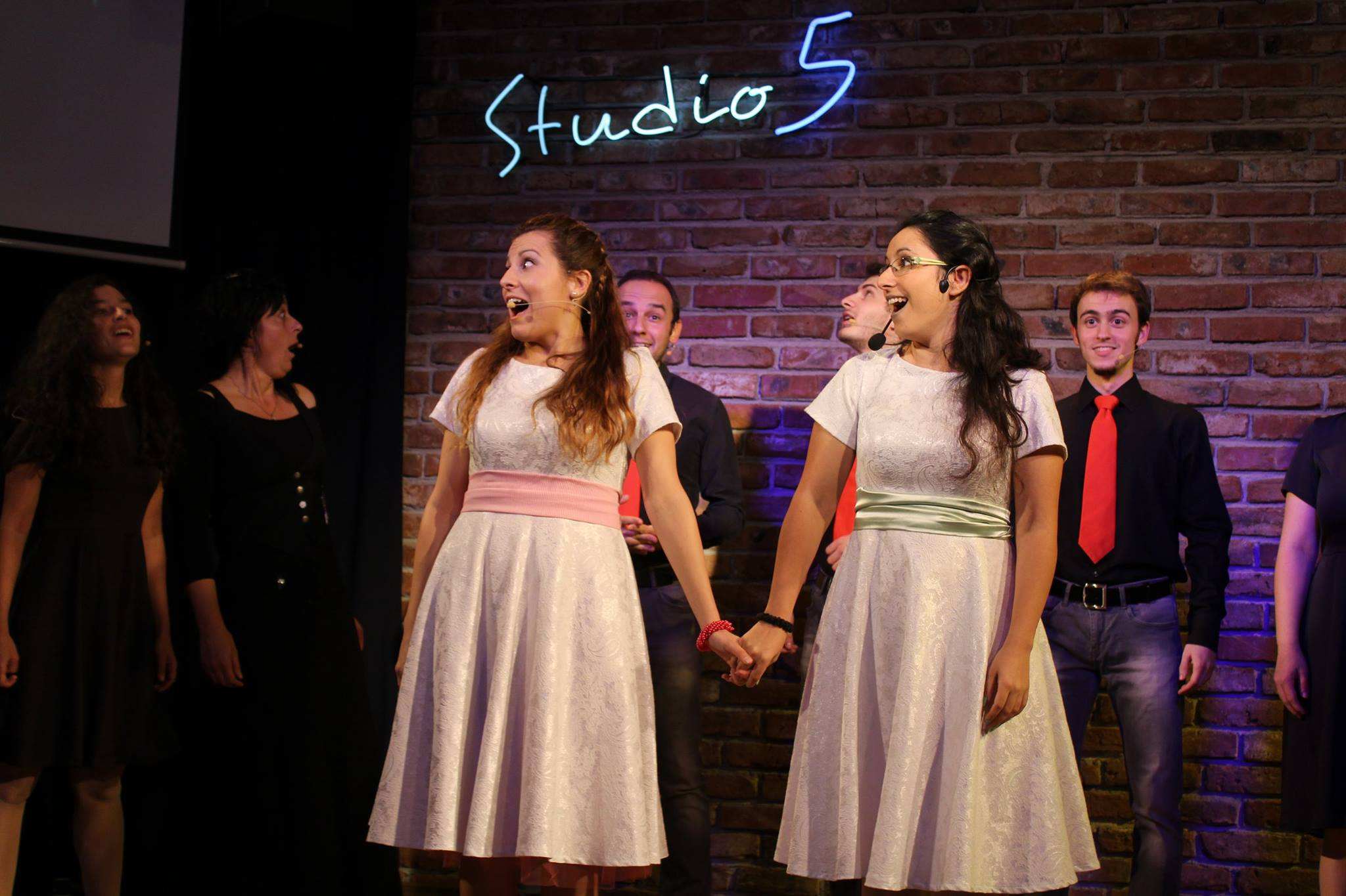 MusiCalling at Studio 5 on 14th on October 2015